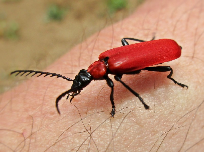 Pyrochroa coccinea (Pyrochroidae) - (imago), Nijmegen - Heijendaal, the Netherlands